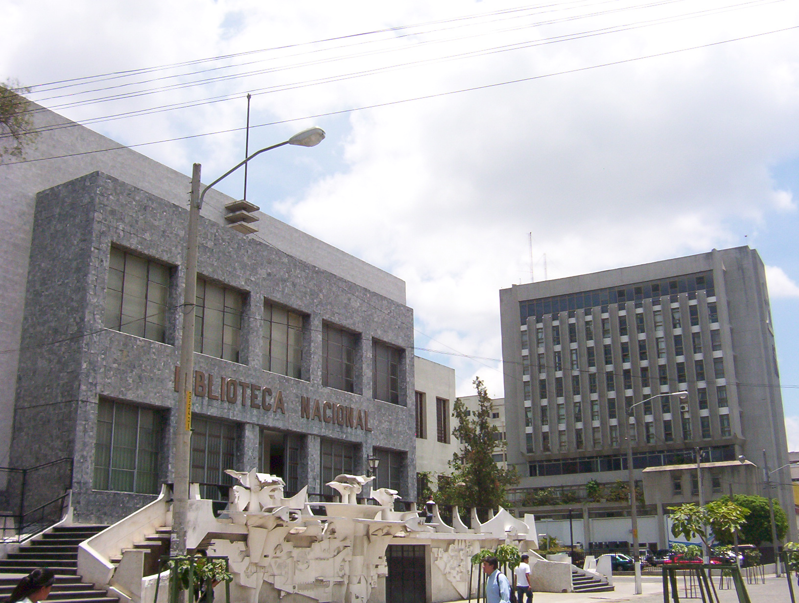 Nacional Library of Guatemala Luis Cardoza y Aragón.